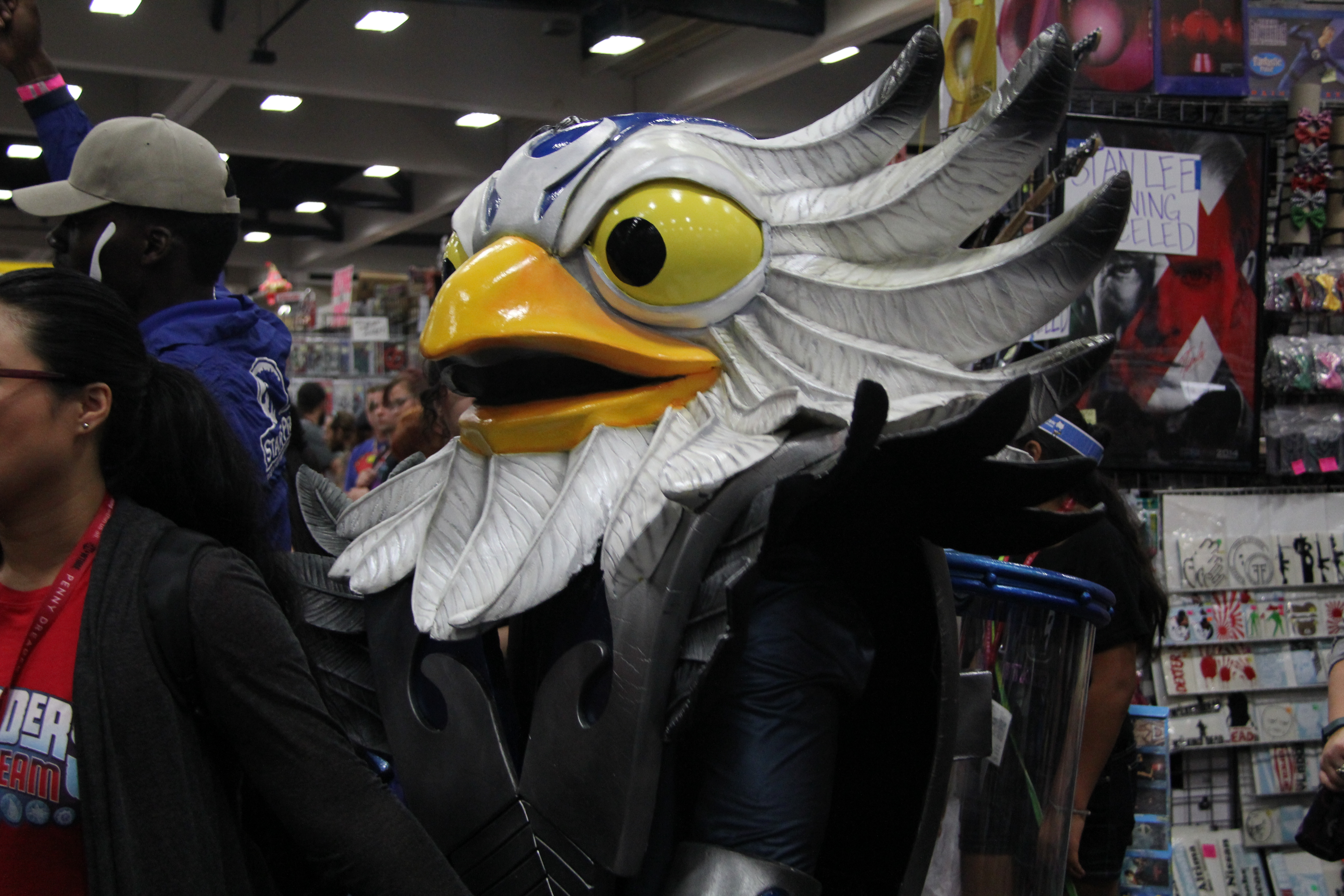 Jet-Vac from Skylanders Cosplay at San Diego Comic-Con (SDCC 2014).